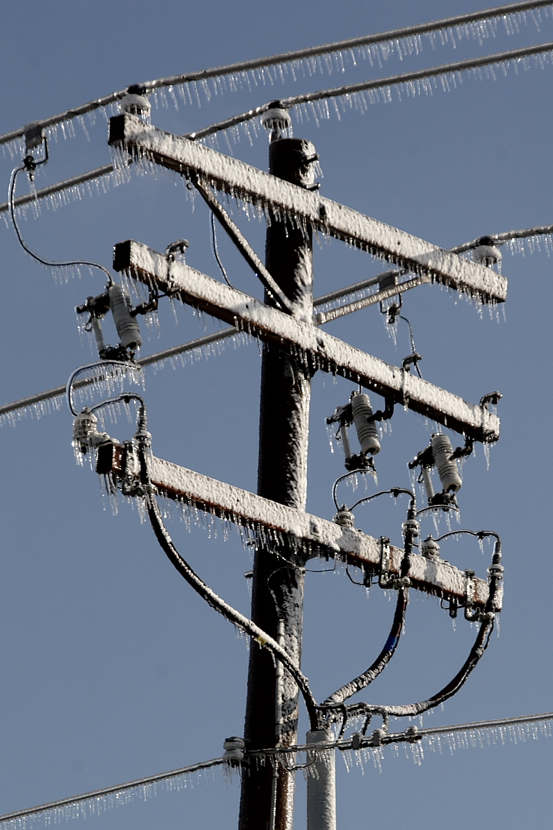 Ice threatened power lines – Iced power lines threaten power outage to many after a powerful ice storm.